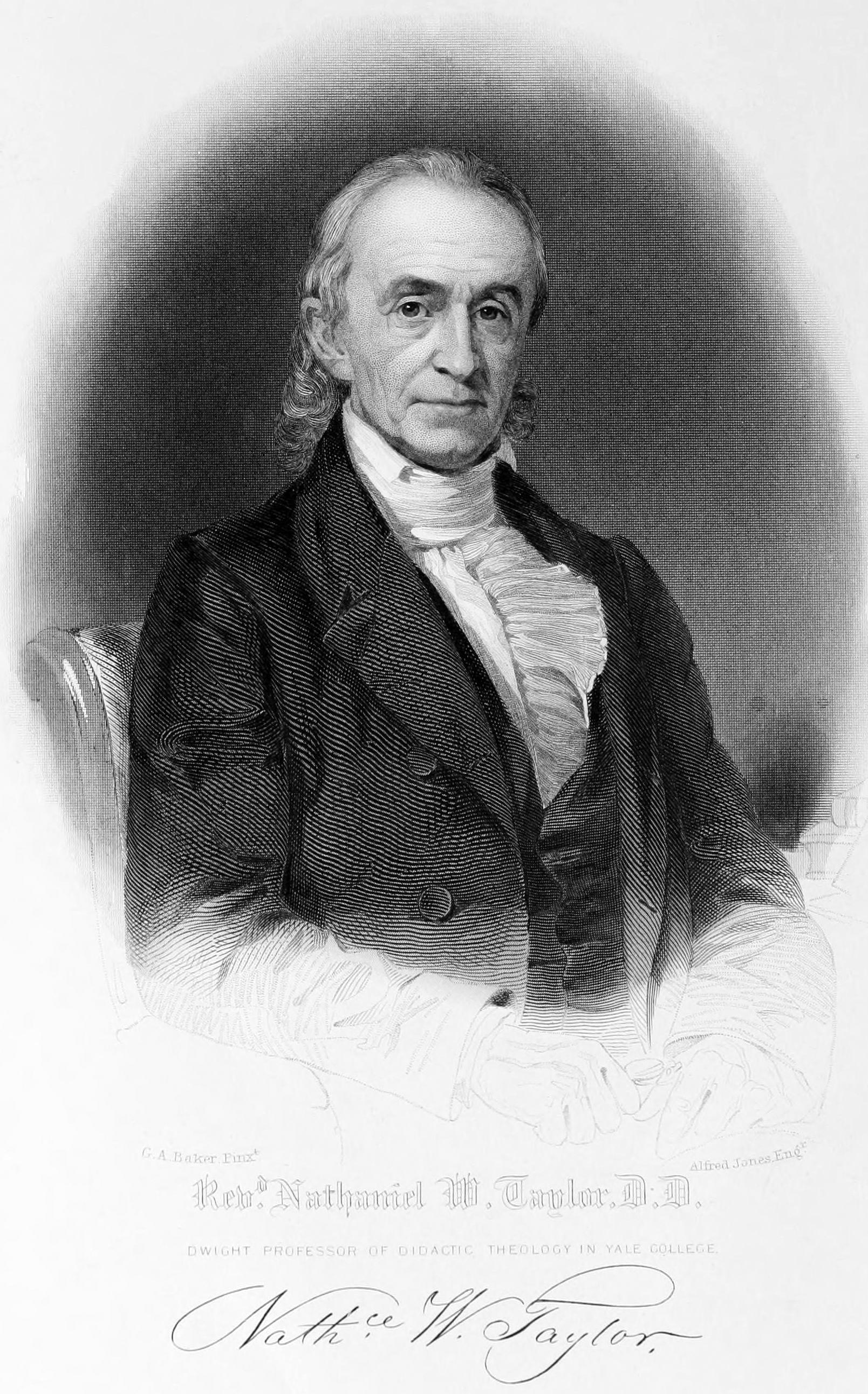 Engraving of Nathaniel William Taylor from an 1873 Catalogue of the Yale Divinity School.